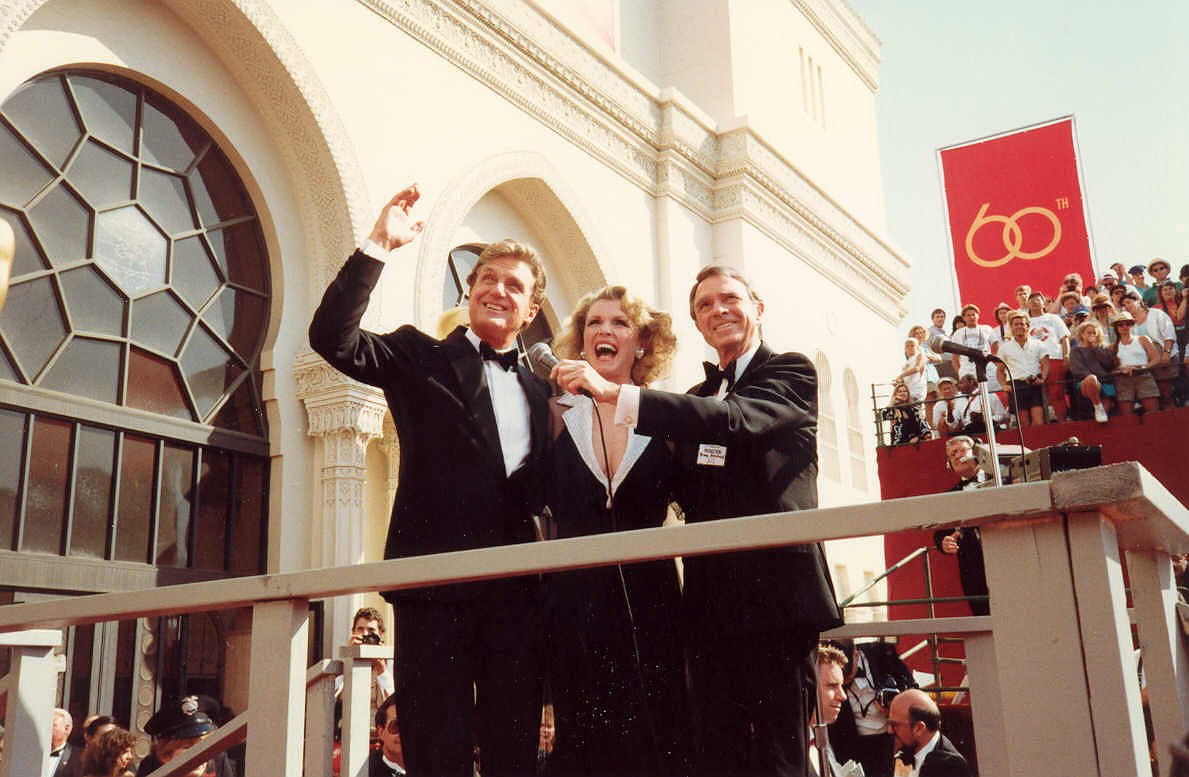 Robert Stack on the red carpet at the 60th Annual Academy Awards, 4/11/88 - Permission granted to copy, publish, broadcast or post but please credit "photo by Alan Light" if you can